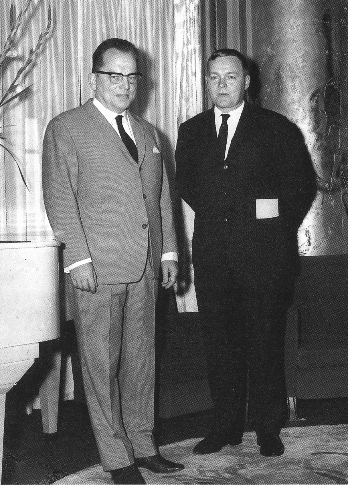 Photograph of the Finnish Minister of Foreign Affairs Ahti Karjalainen (1923–1990) and the diplomat Risto Hyvärinen (1926–2018).